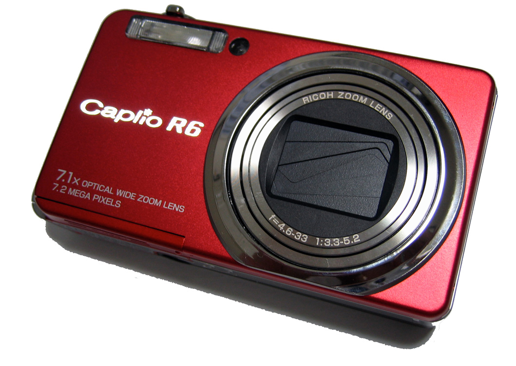 Digital camera Ricoh Caplio R6, released in March 2007.